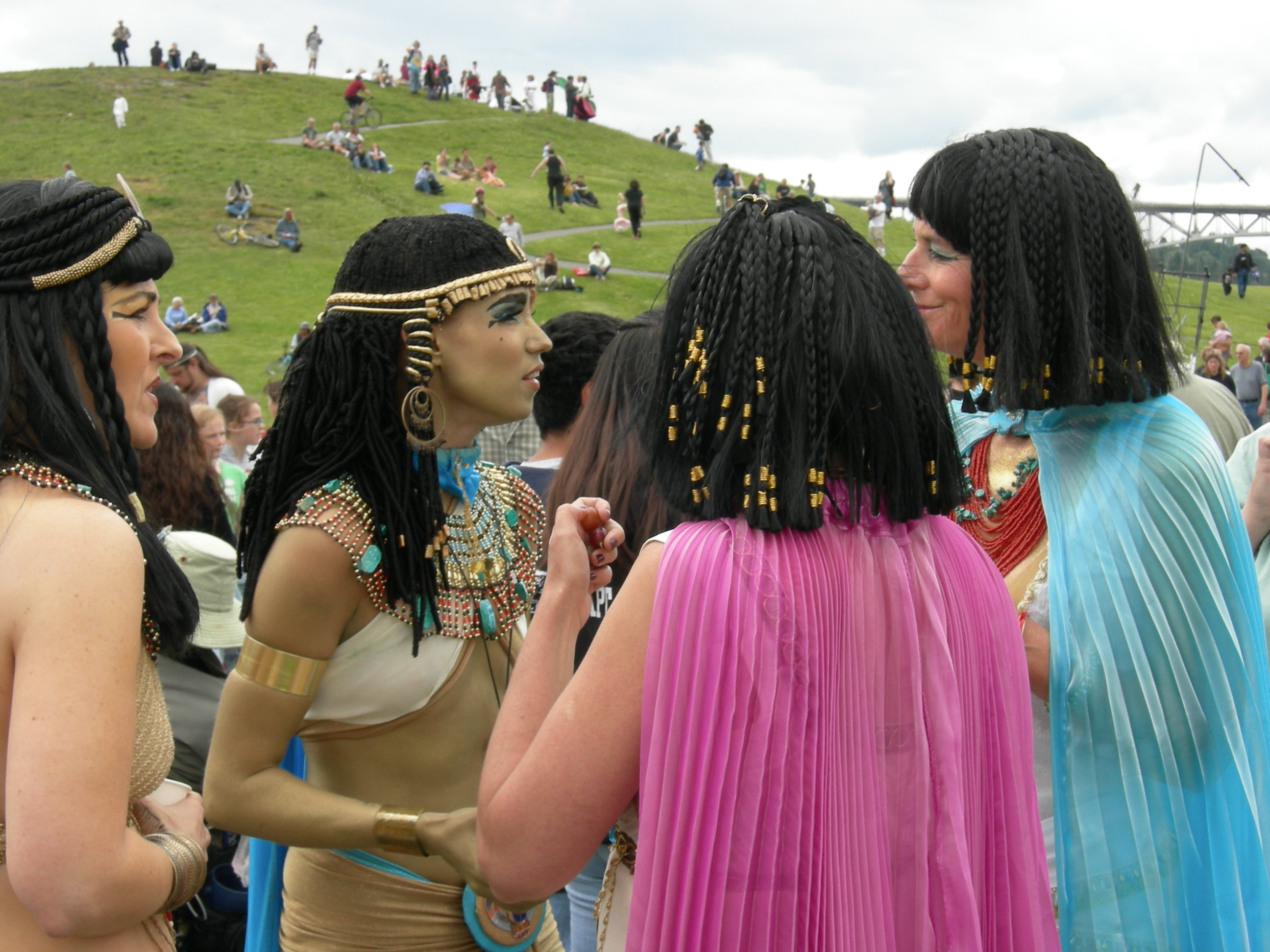 Costumes evoking Ancient Egypt, 2007 Summer Solstice Parade and Pageant, Fremont Fair, Seattle, Washington. A large portion of that year's parade and pageant was on an Ancient Egyptian theme. This photo was taken at Gas Works, after the parade proper and during the pageant.